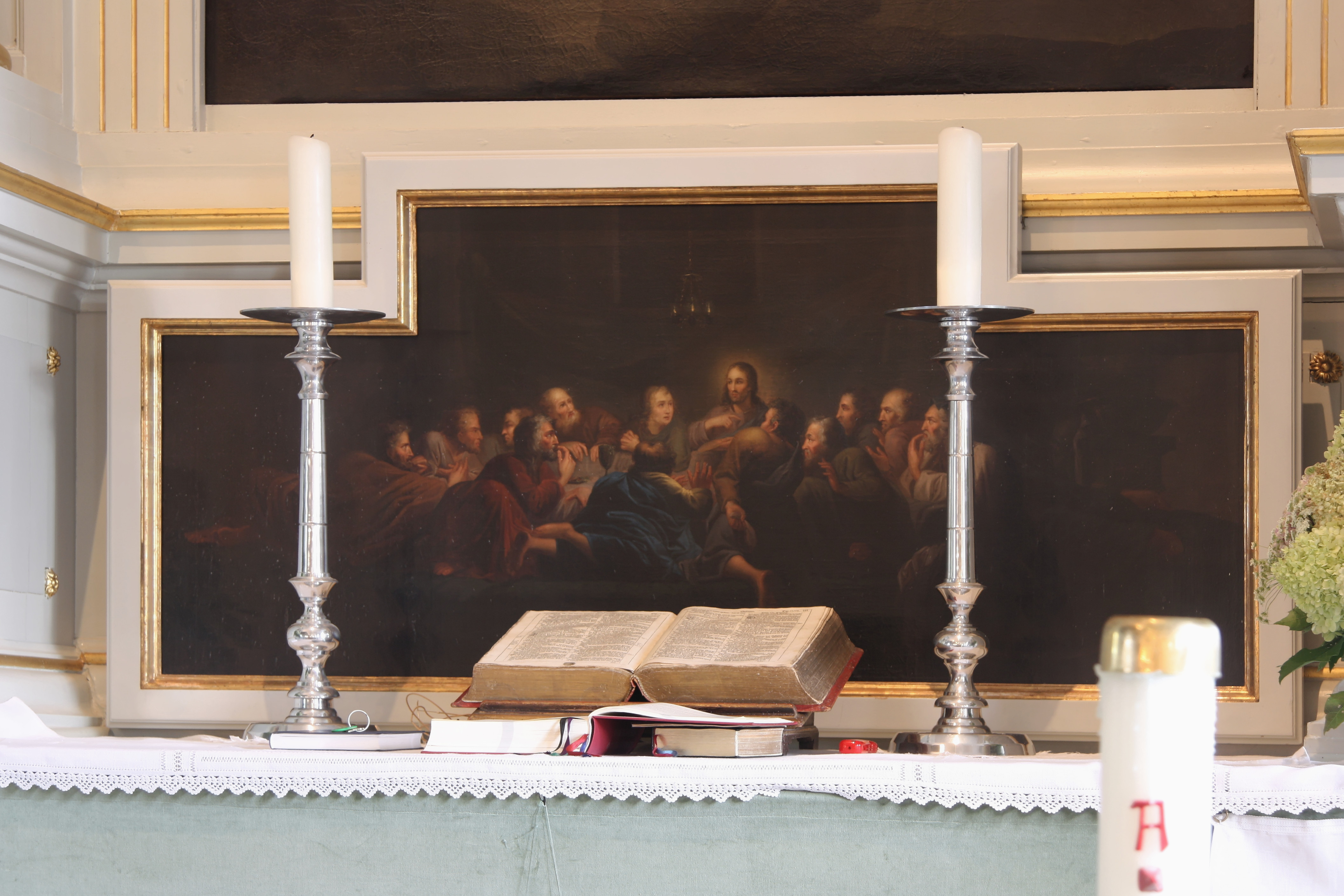 Church St. Severini, Hamburg-Kirchwerder, interior, details of the altar